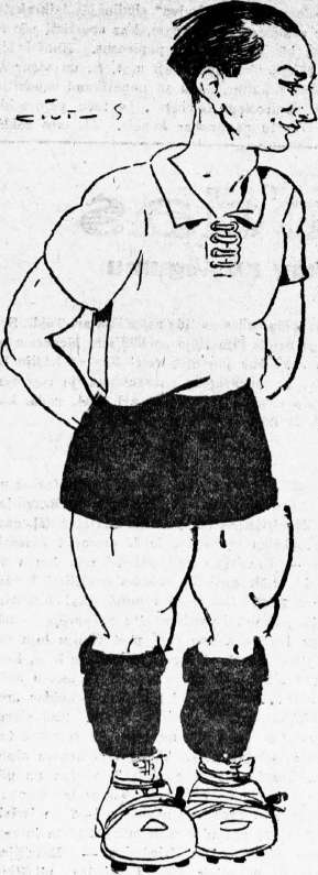 Portrait of Aleksandrs Vanags